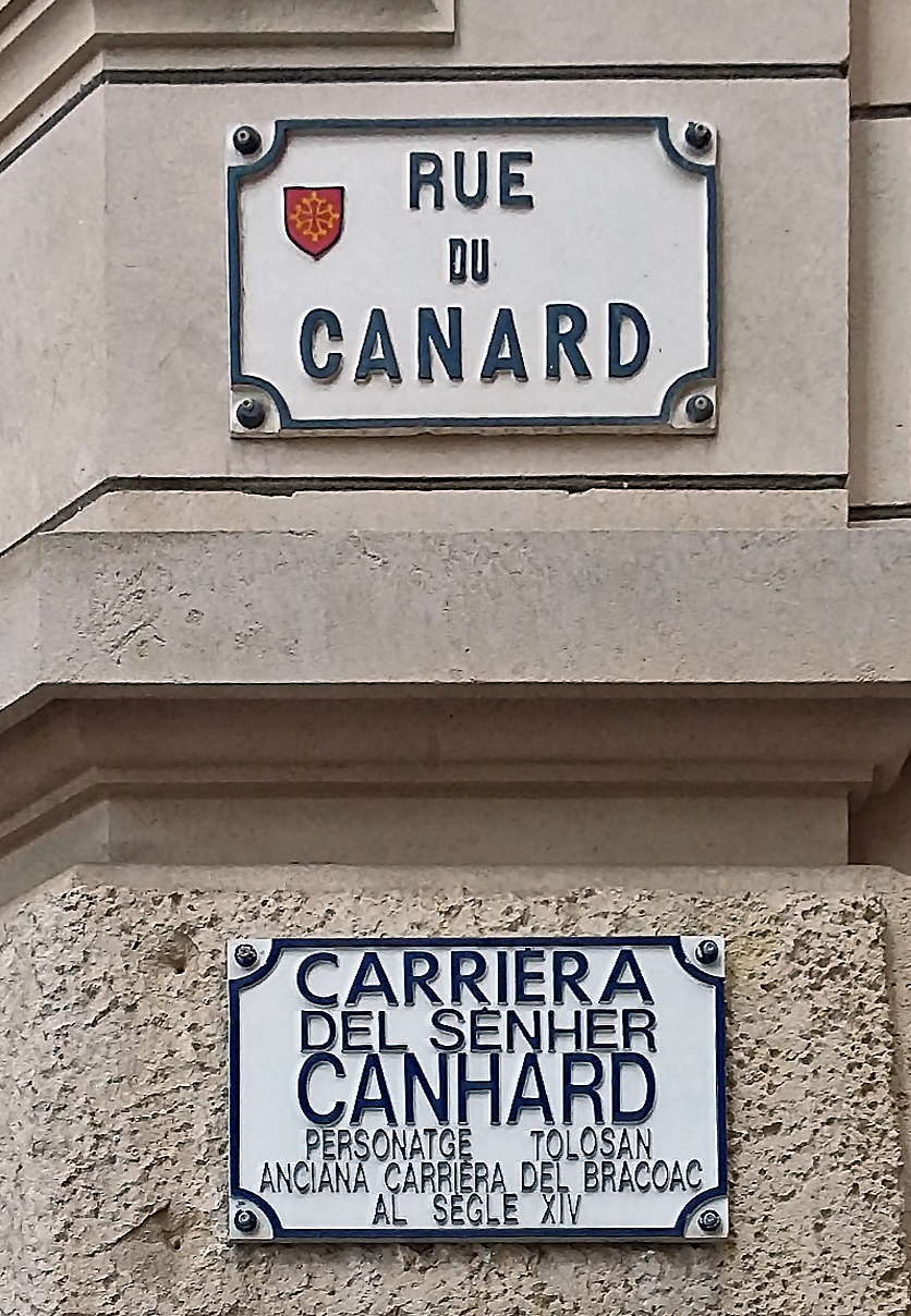 Rue du Canard, in Toulouse - Street name sign. They have the particularity of being: in French and Occitan.